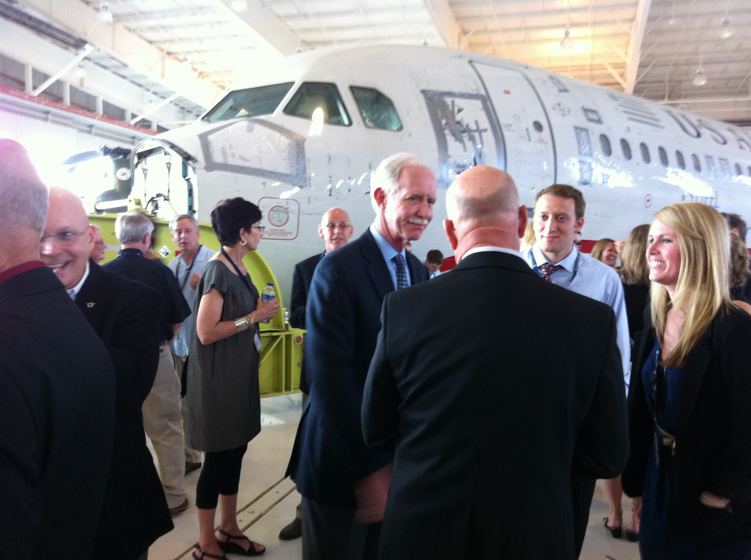 Chesley "Sully" Sullenberger